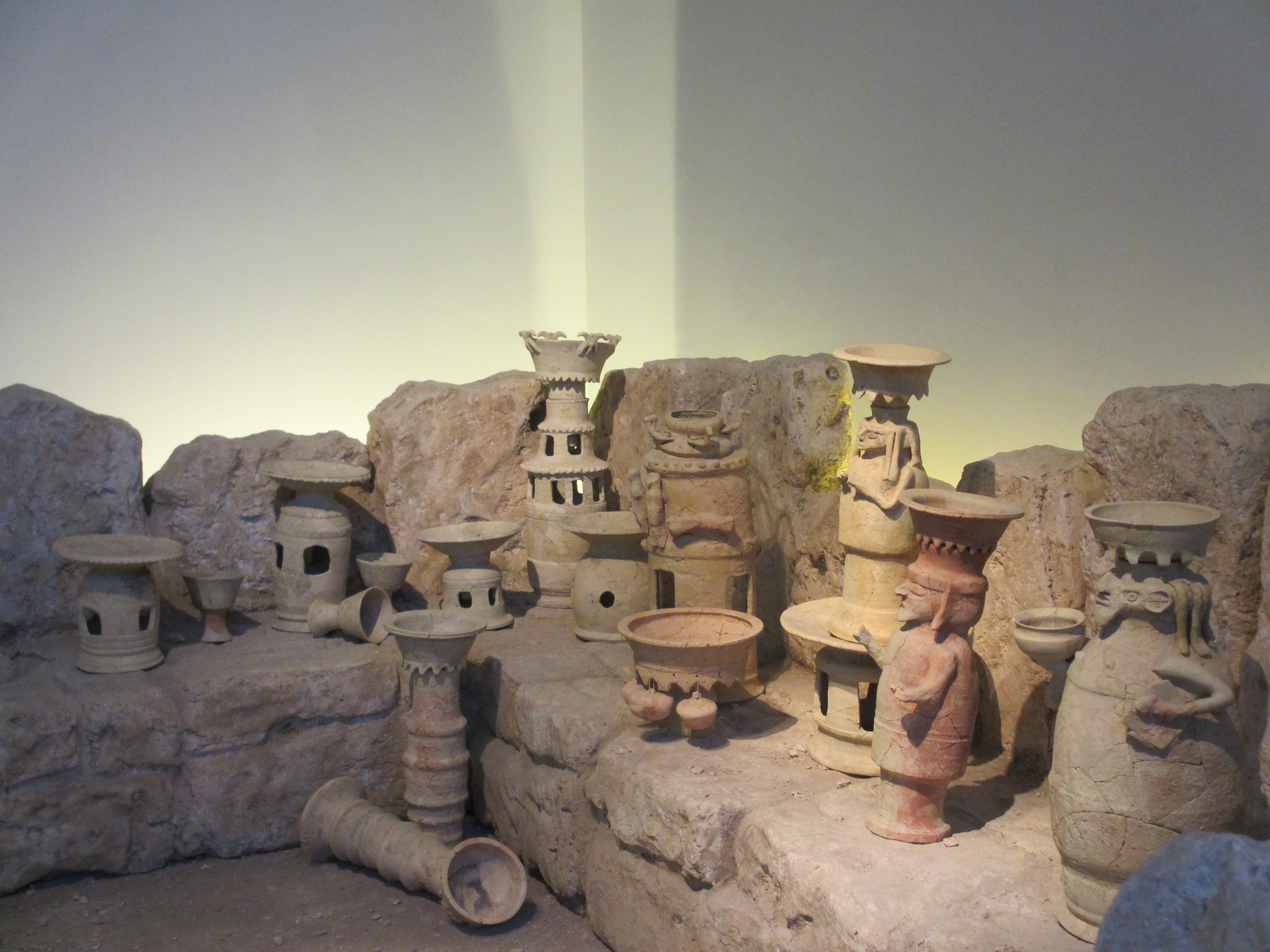 Edomite clay stands from Hazeva (7th-6th BCE). Israel Museum, Jerusalem